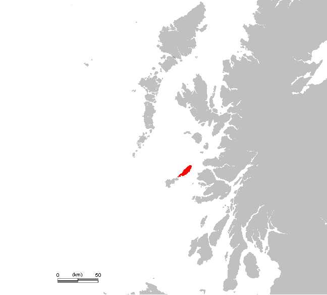 UK Coll.PNG (Scotland, Hebrides)